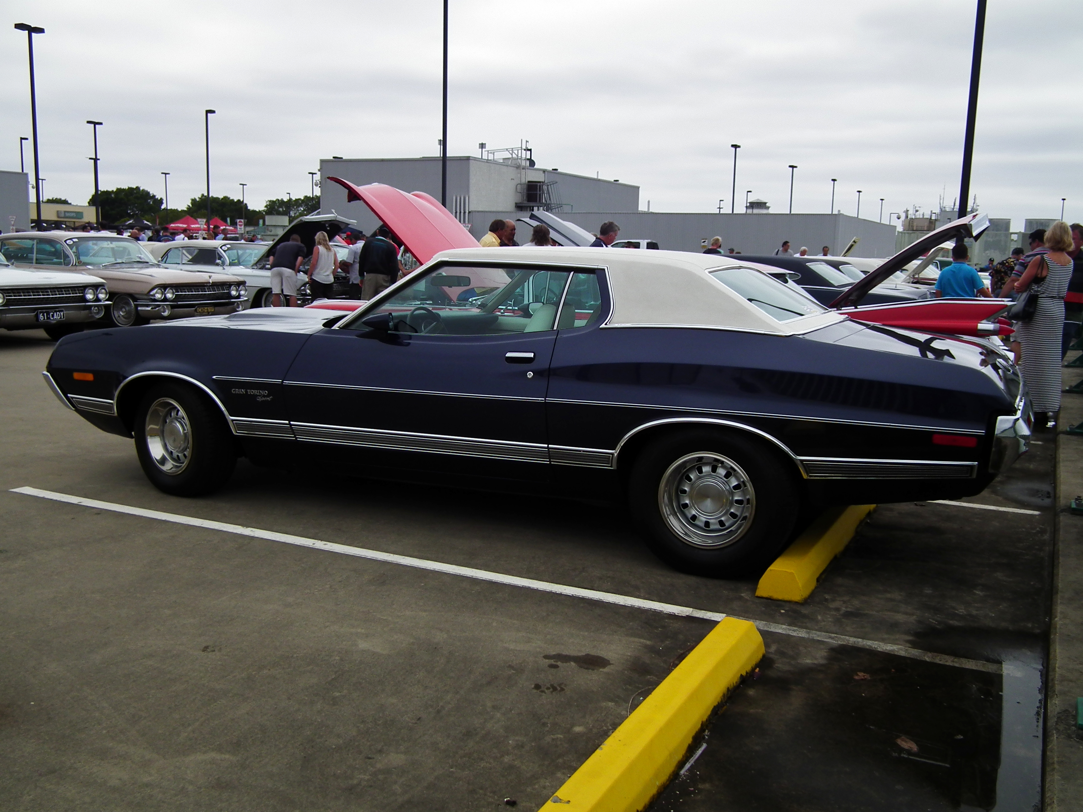 1972 Ford Gran Torino Sport coupe. Taken at the 2013 New South Wales All American Day, held at Castle Towers Shopping Centre, Castle Hill, Sydney.